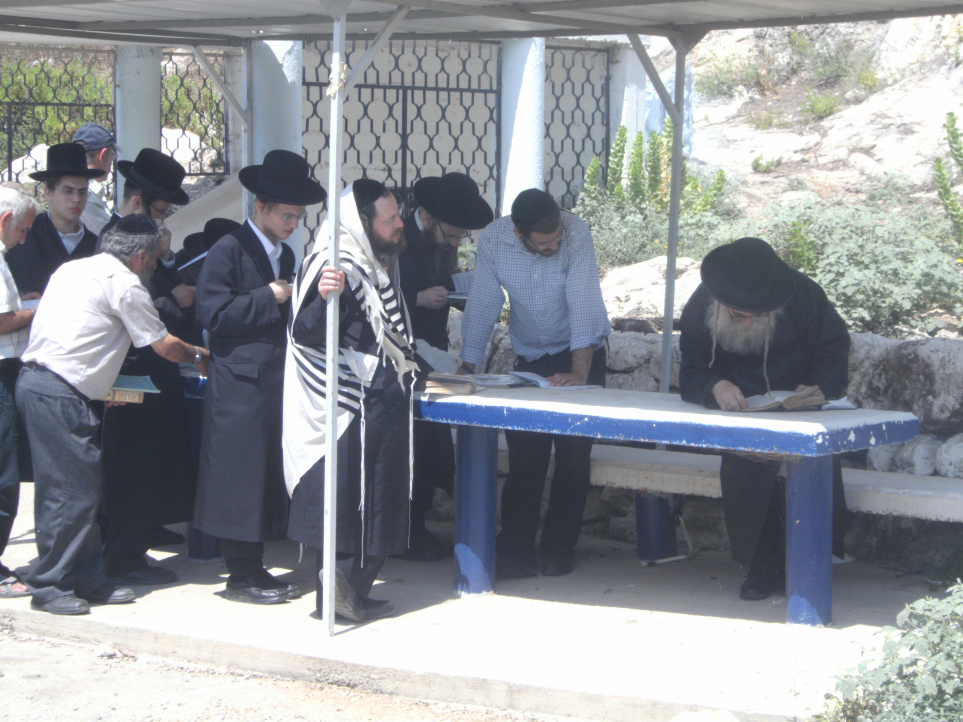 The Rebbe of Makawa in Zion Rabbi Yehuda ben Bava in Shefar'am